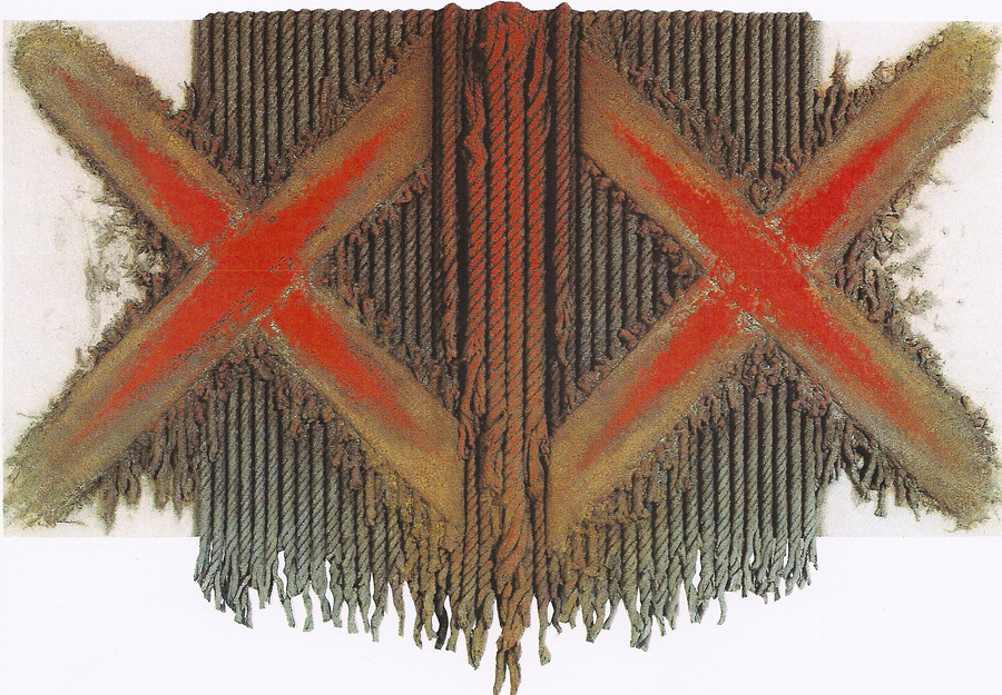 Jiménez-Balaguer 2000 years of what ? 1998